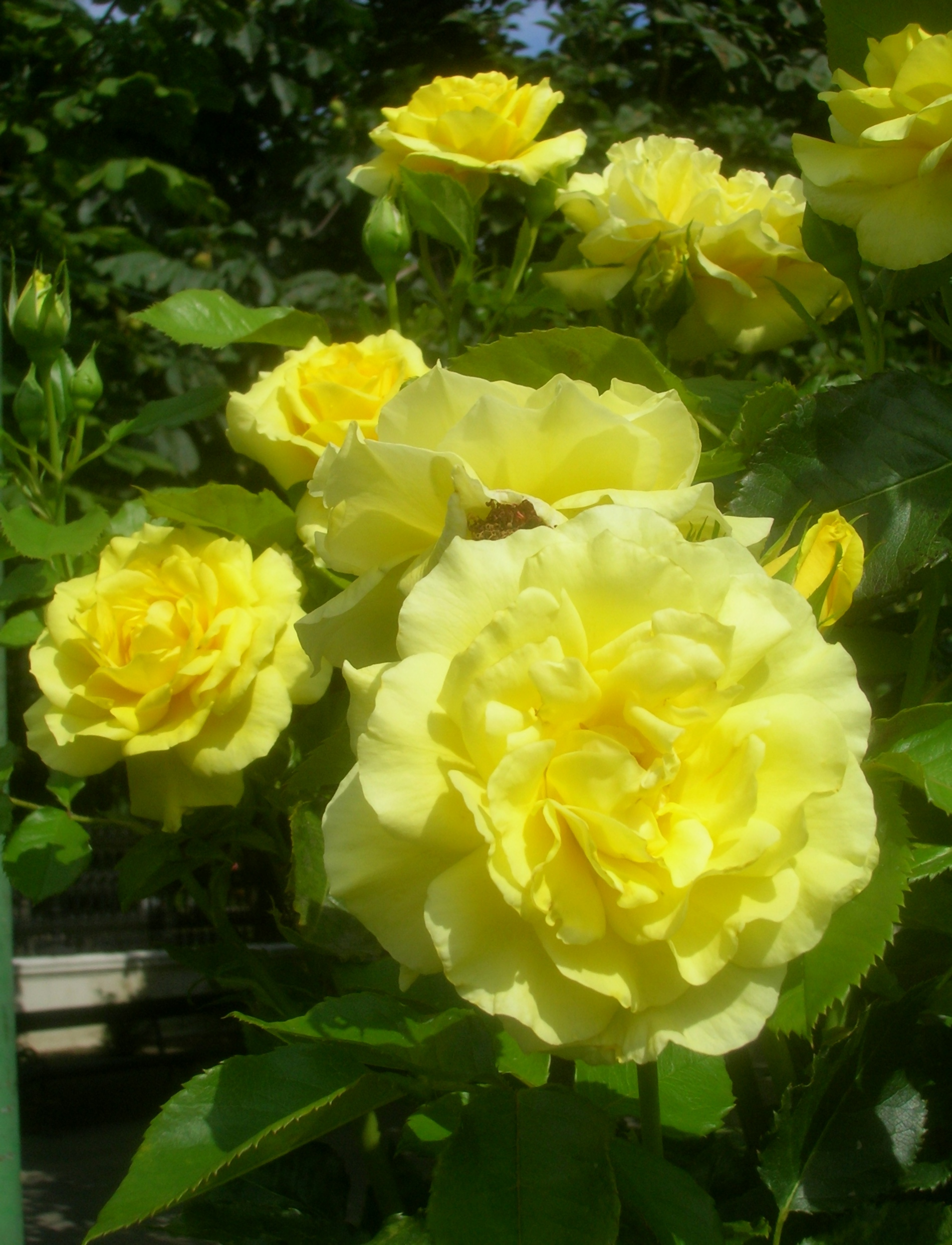 Rosa 'Friesia' in the Volksgarten in Vienna. Identified by sign. (Friesia, Flb. 1973)